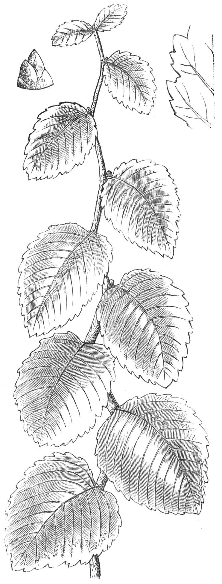 Ulmus 'Pitteurs', from Journal d'agriculture pratique, Morren 1848